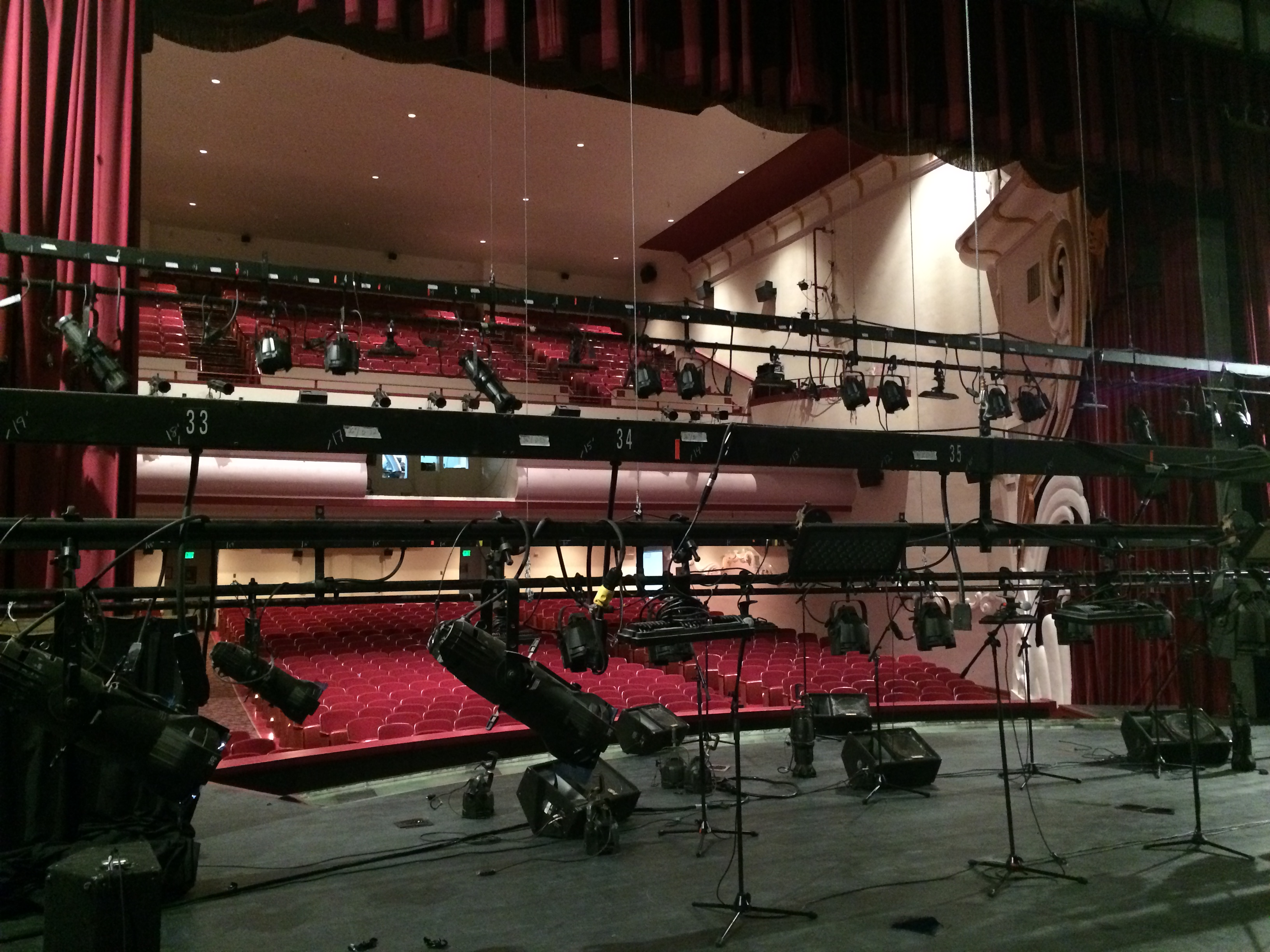 View from the stage in the Colonial Theater in Idaho Falls